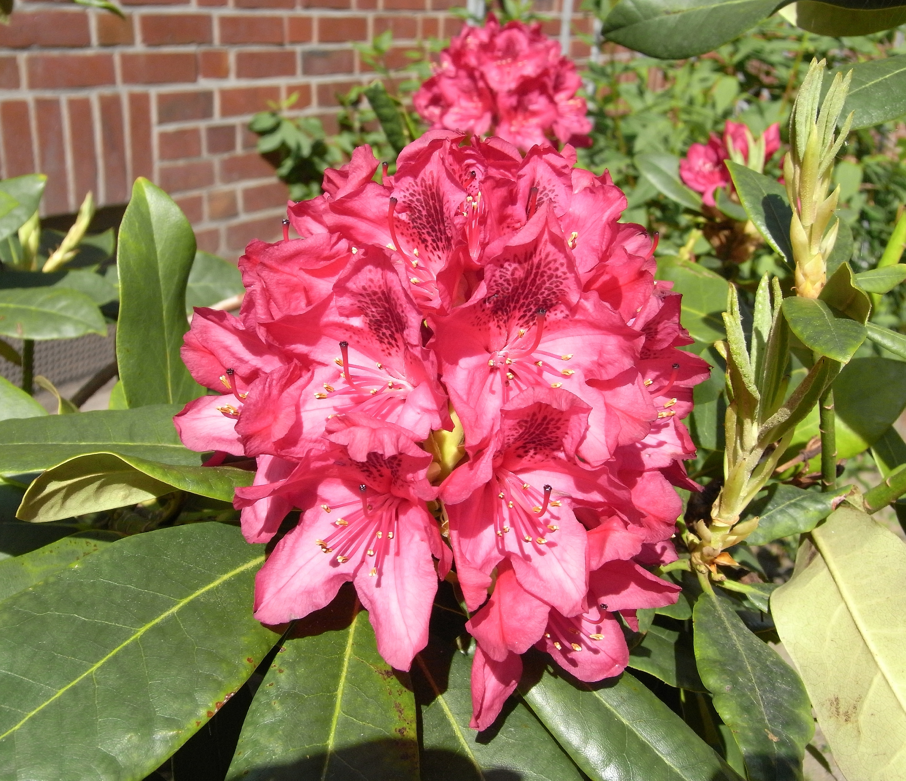 Rhododendron